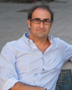 Jordi Sebastià, valencian writer and journalist